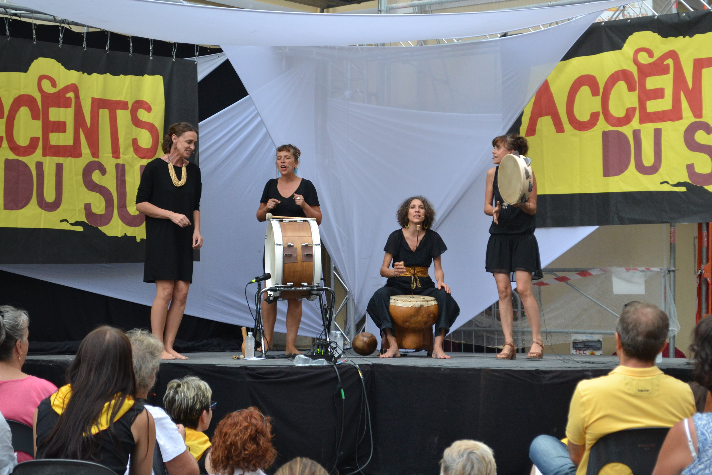 La Mal Coiffée during Hestiv'Òc 2015.